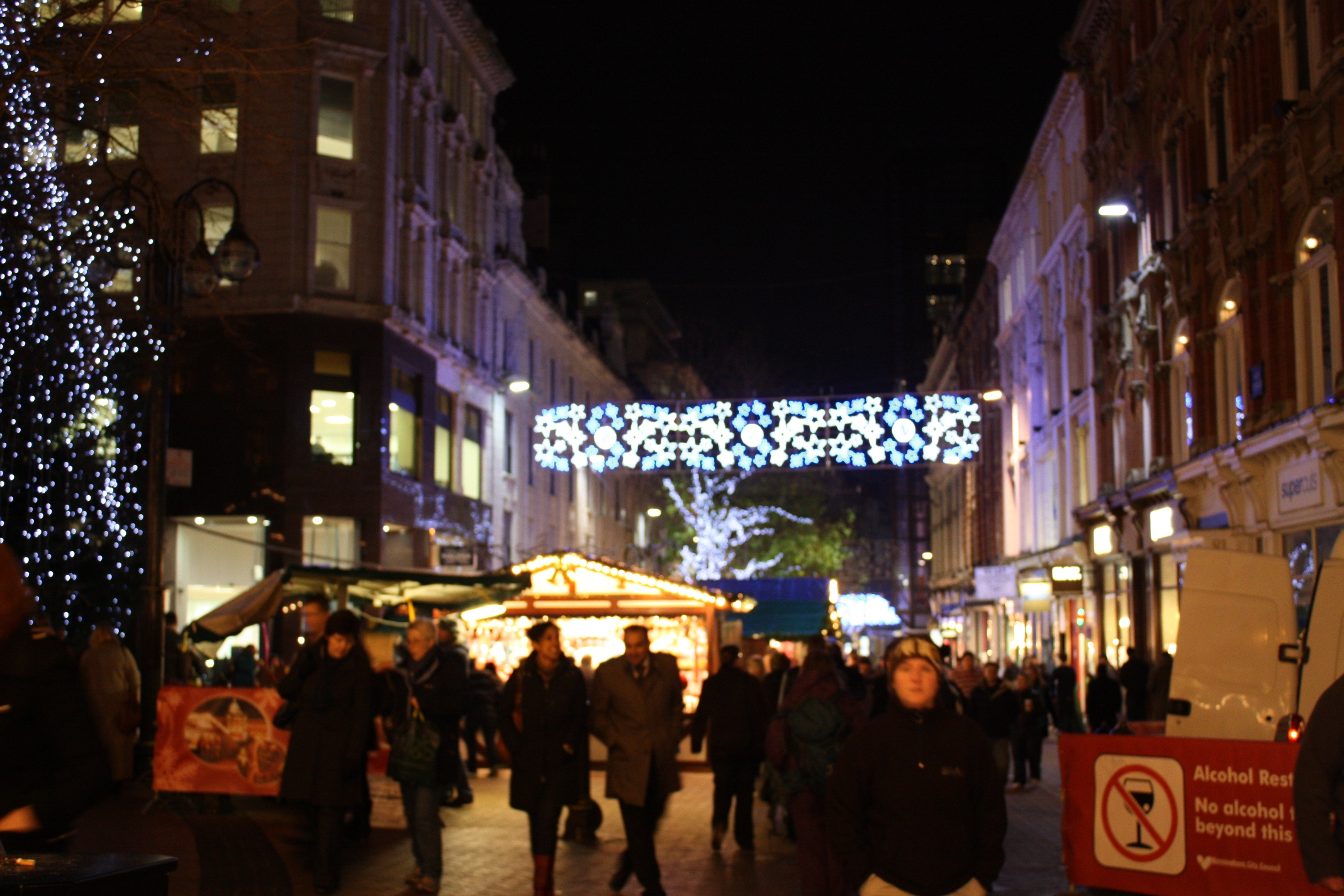 Frankfurt Christmas Market on New Street in December 2008